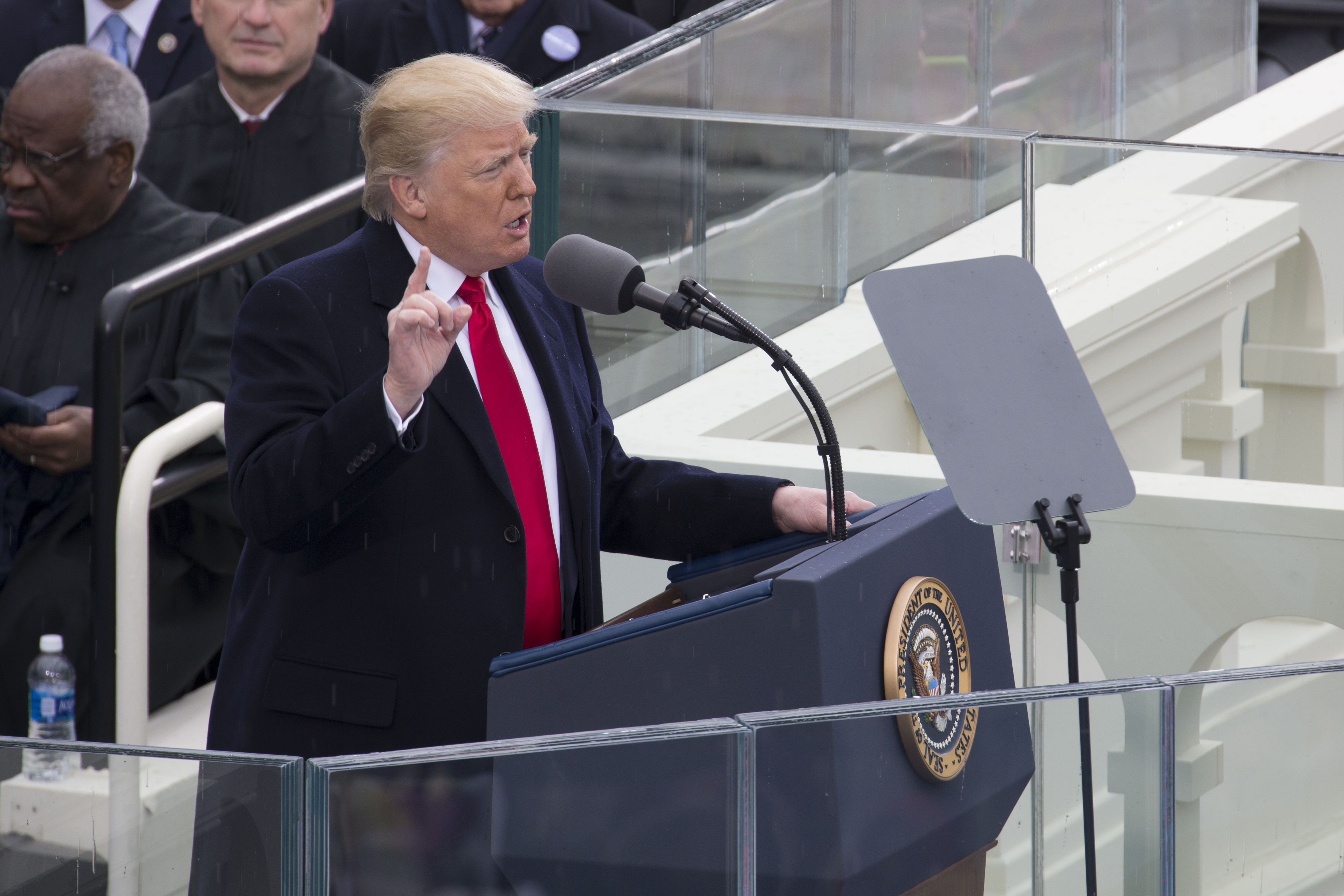 President Donald J. Trump delivers his presidential inaugural address during the 58th Presidential Inauguration at the U.S. Capitol Building, Washington, D.C., Jan. 20, 2017. More than 5,000 military members from across all branches of the armed forces of the United States, including Reserve and National Guard components, provided ceremonial support and Defense Support of Civil Authorities during the inaugural period. (DoD photo by U.S. Marine Corps Lance Cpl. Cristian L. Ricardo)